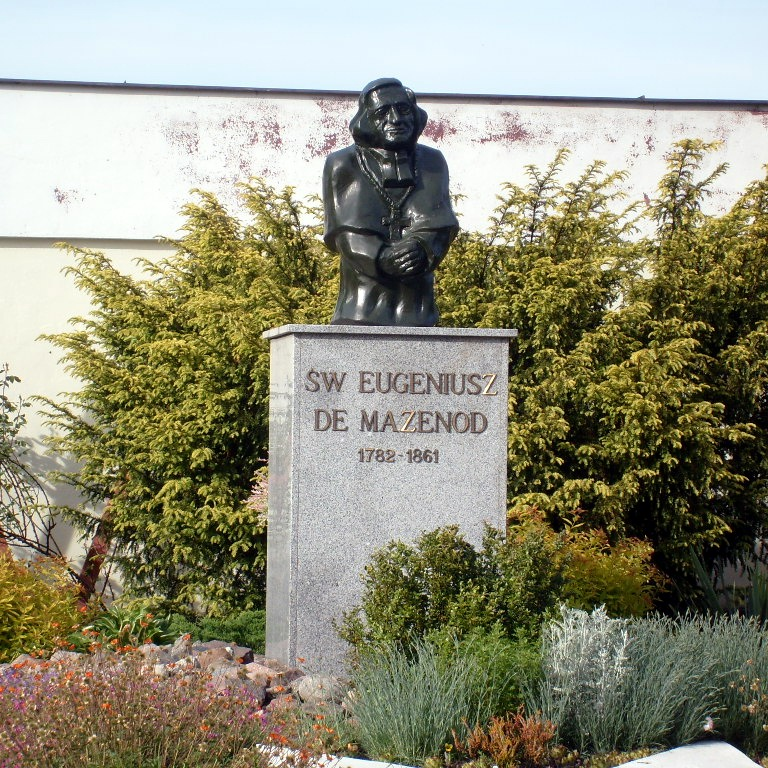 The monument of Charles-Joseph-Eugene de Mazenod in Laskowice, Poland